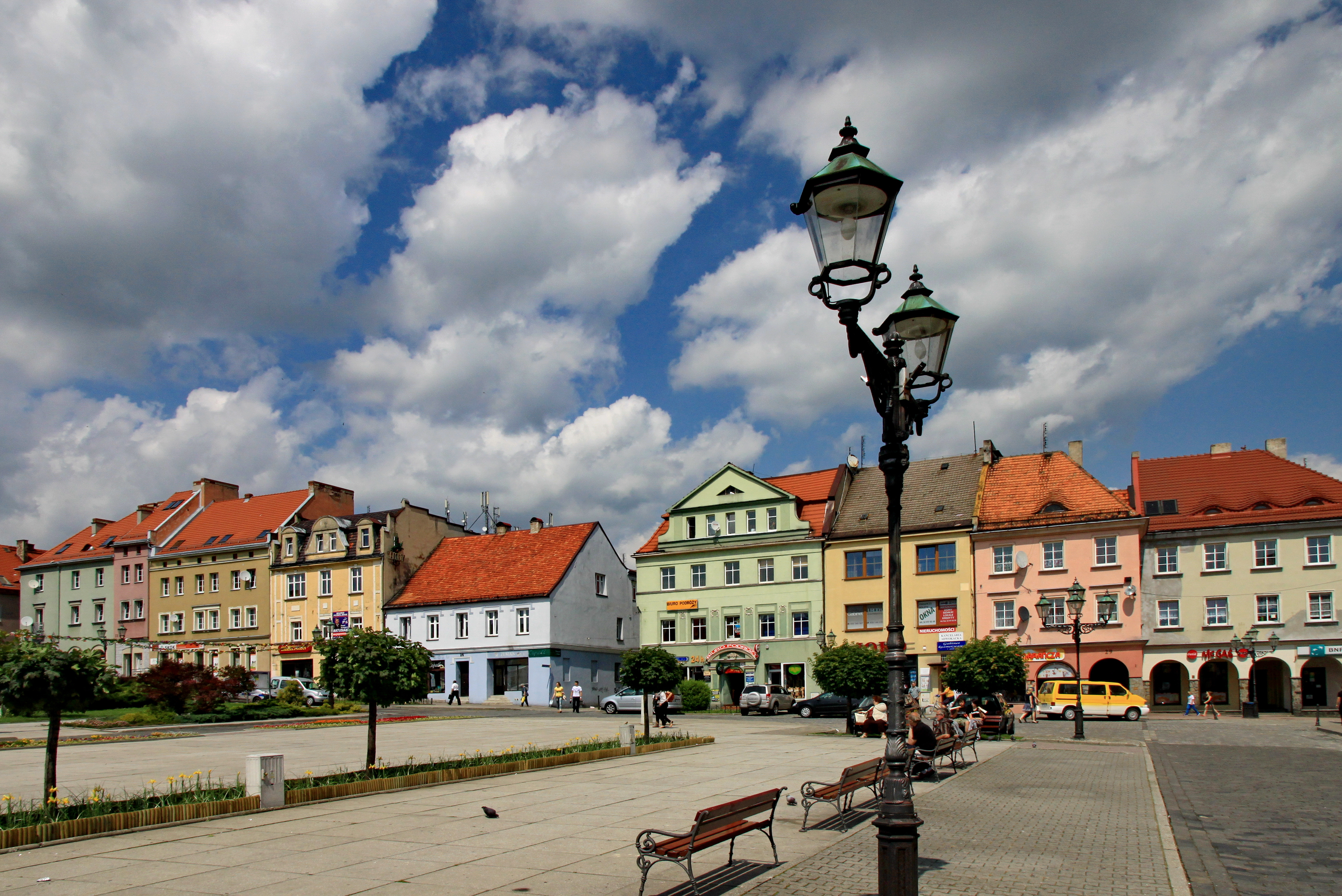 Market Square in Wodzisław Śląski